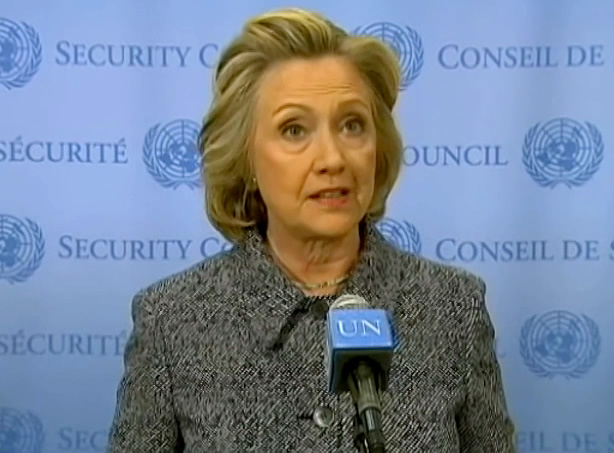 Hillary Clinton at 10 March 2015 press conference about her use of personal email while in office as United States Secretary of State.